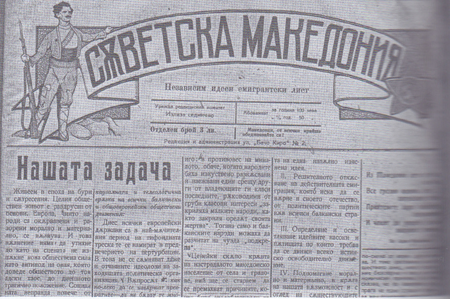 front page of newspaper Soviet Macedonia (1923-1925)